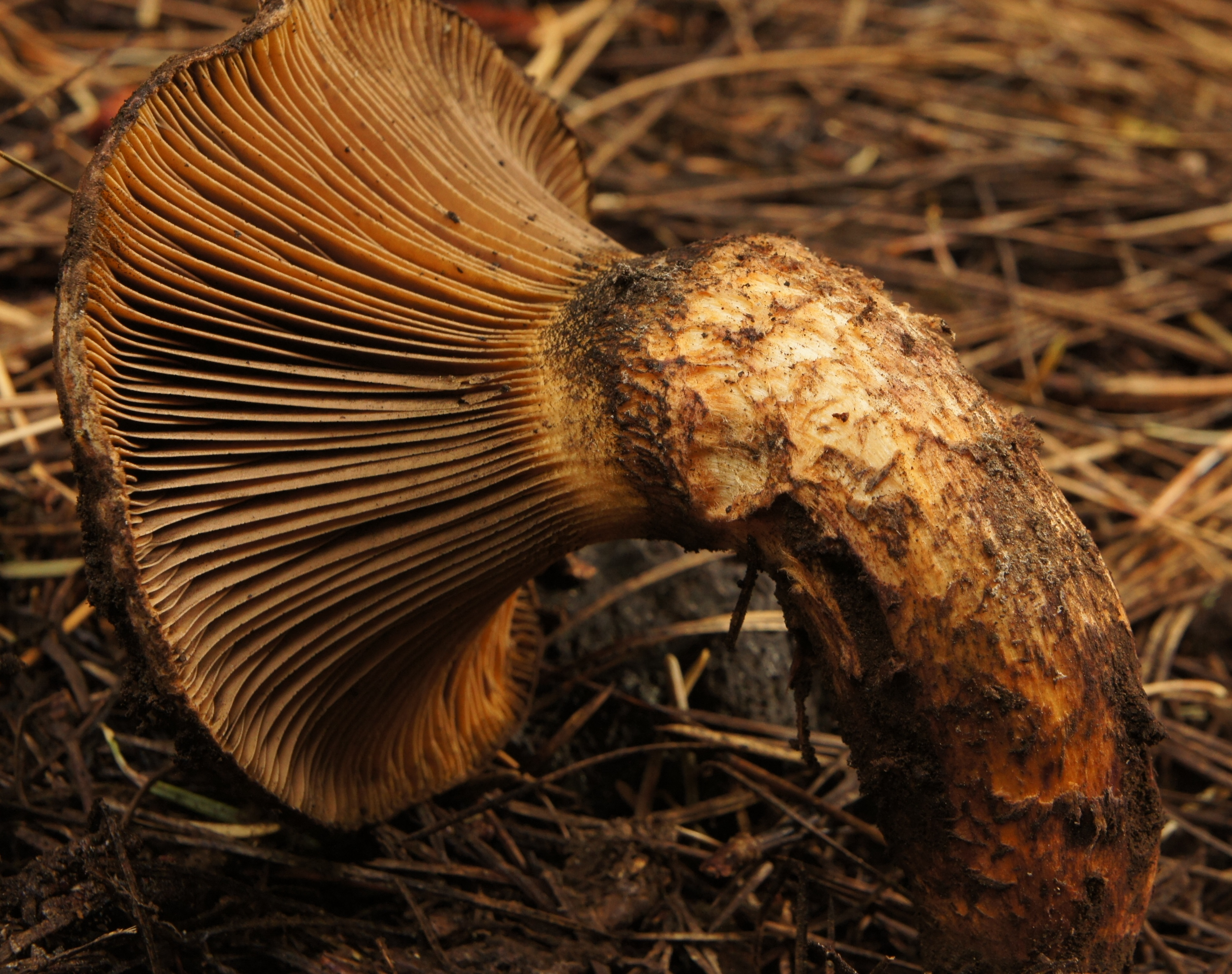 A fruit body of the agaric fungus Chroogomphus pseudovinicolor. Photographed near Medicine Lake, Mount Shasta, California, USA.